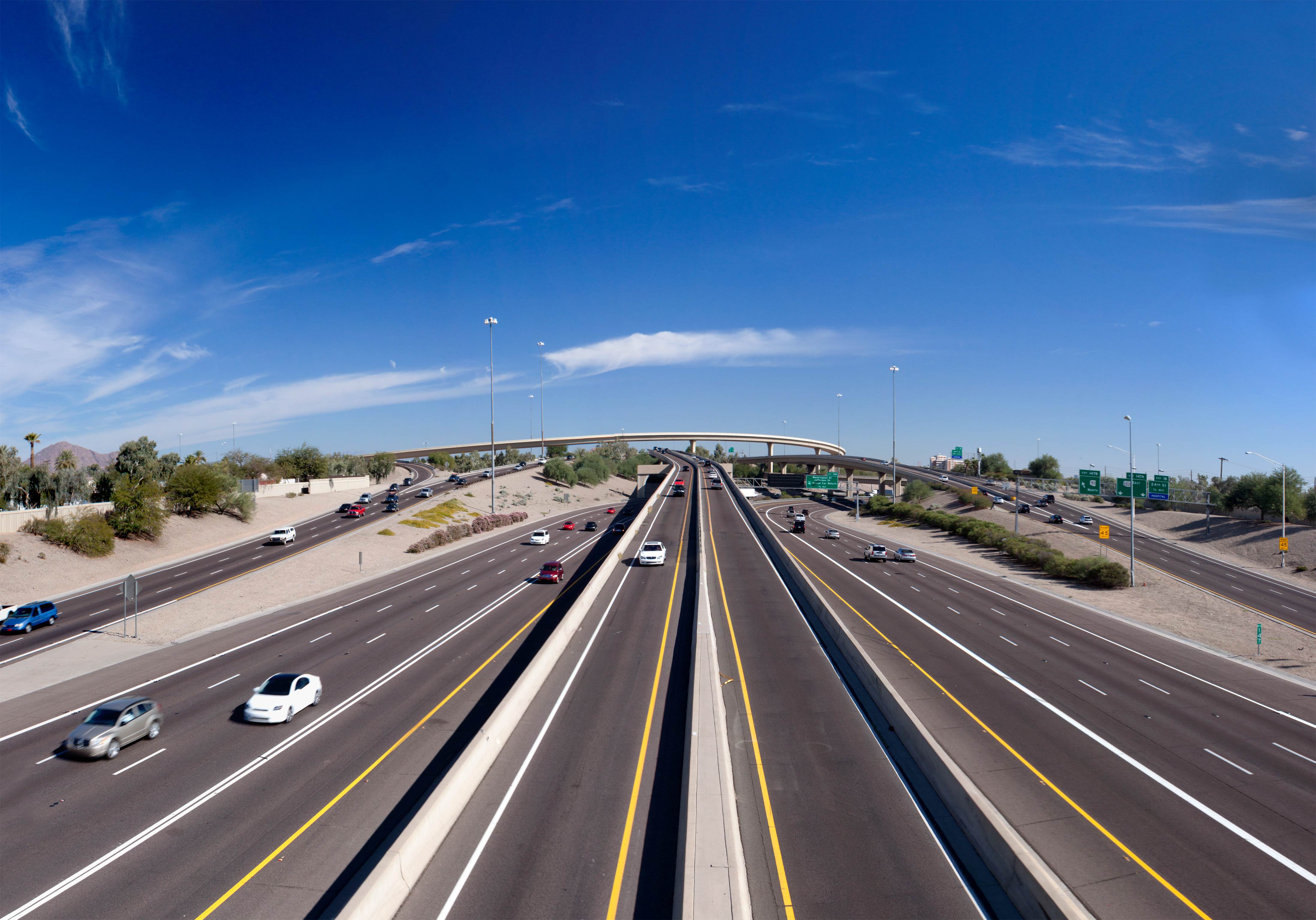 The busiest interchange in the state of Arizona, the "Mini Stack," carries over 300,000 vehicles per day. Interstate 10, Loop 202, and State Route 51 all converge at this interchange located just north-east of downtown Phoenix.